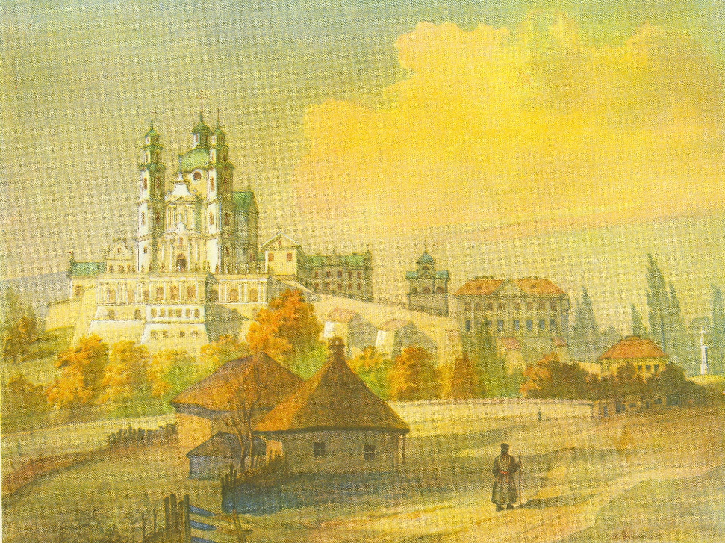 Painting of Taras Shevchenko